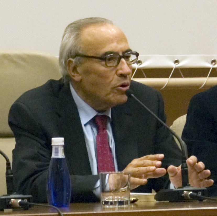 Gregorio Peces-Barba, Spanish politician and jurist, during a conference at the University of Valladolid.